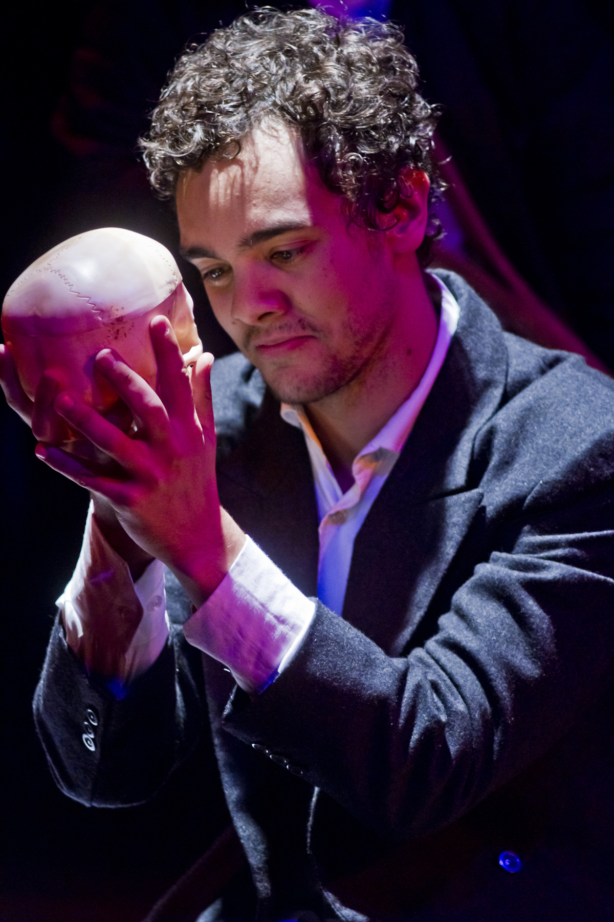 Em cena